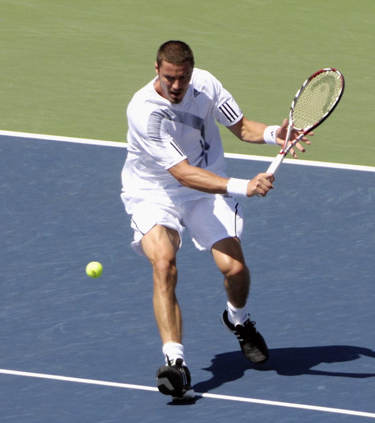 Marat Safin at the 2009 US Open